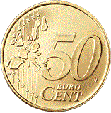 Common (or European) side of a €0.50 coin. It is copyrighted by the European Union.